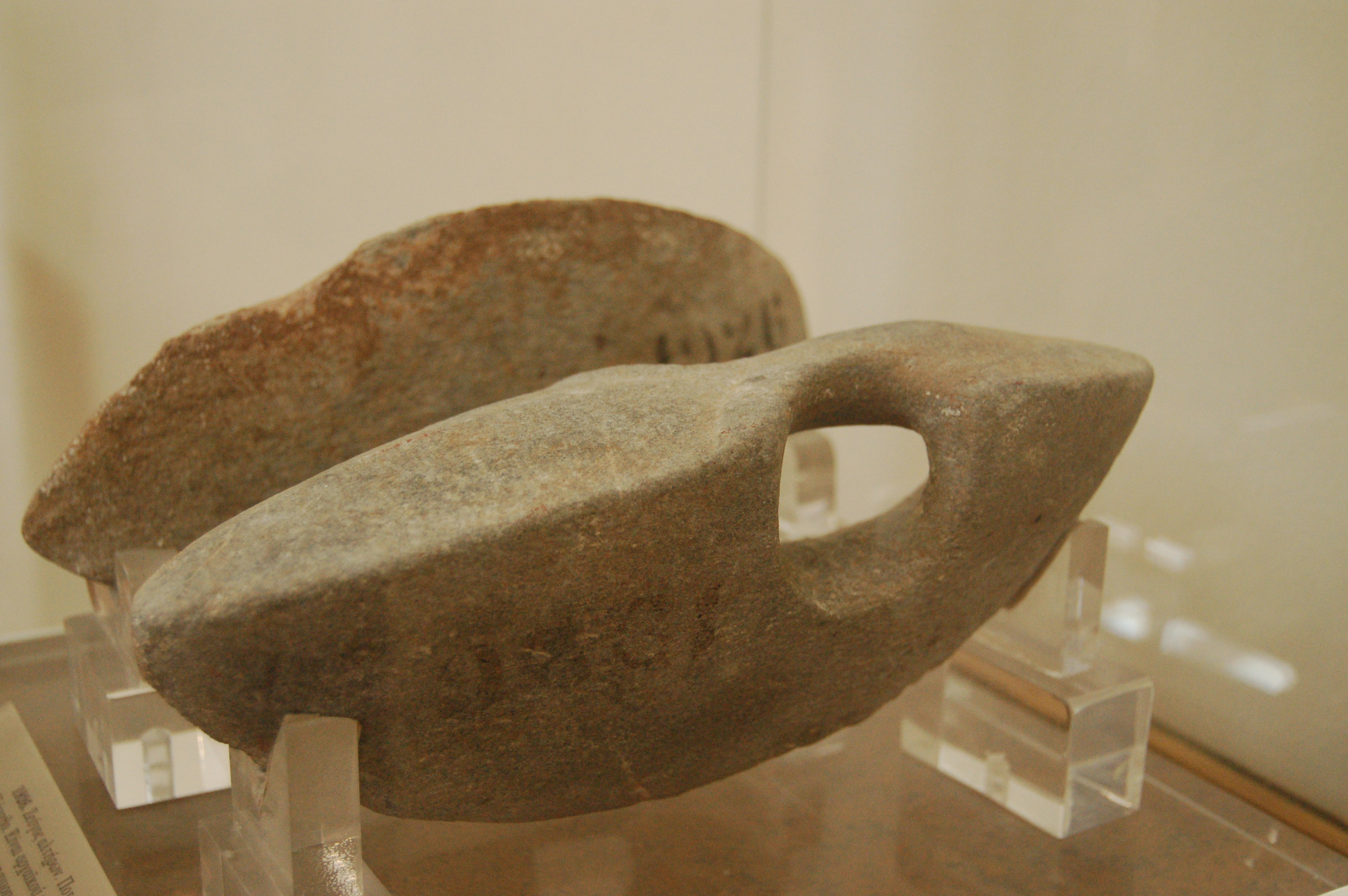 Halteres from ancient Greece, used for the long jump in the Olympic Games. Currently located in the National Archaeological Museum in Athens.